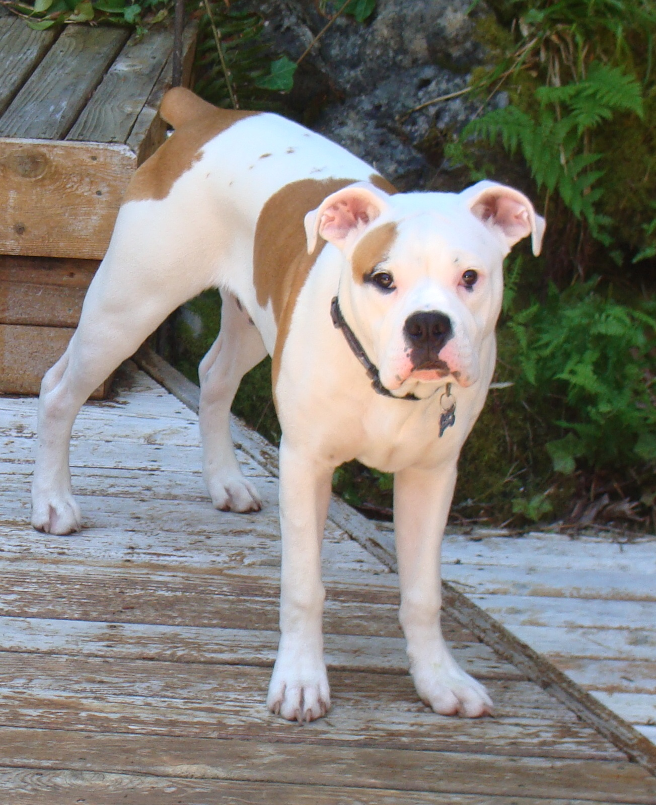 Male Valley Bulldog